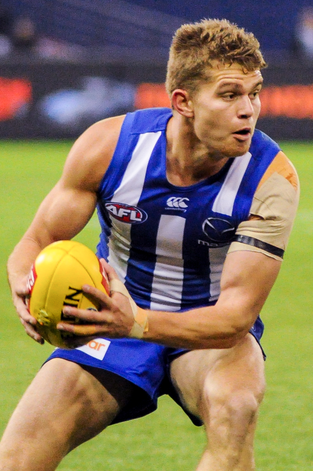 Jed Anderson during the AFL round thirteen match between North Melbourne and St Kilda on 16 June 2017 at Etihad Stadium in Melbourne, Victoria.